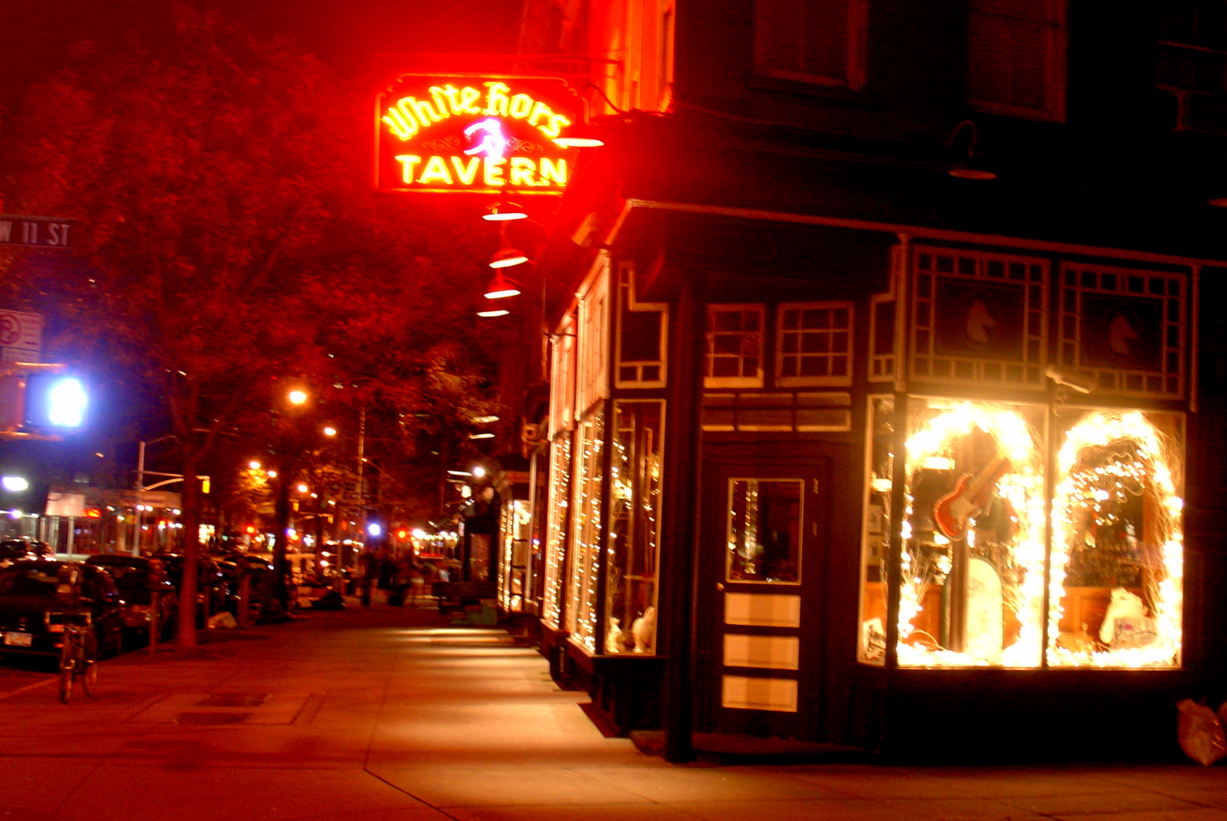 The White Horse Tavern at night.